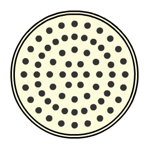 scheme of Witt's plate made in Macromedia Flash 5